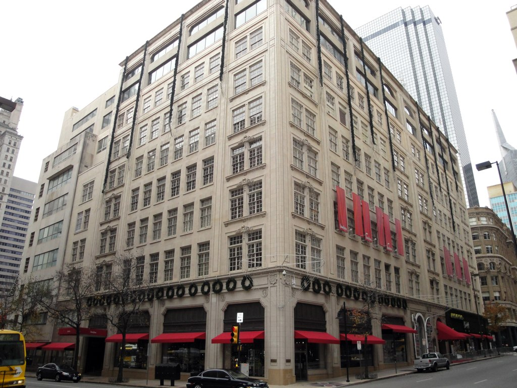 Exterior view of historic Neiman Marcus flagship store in Dallas, Texas as seen from Commerce Street.